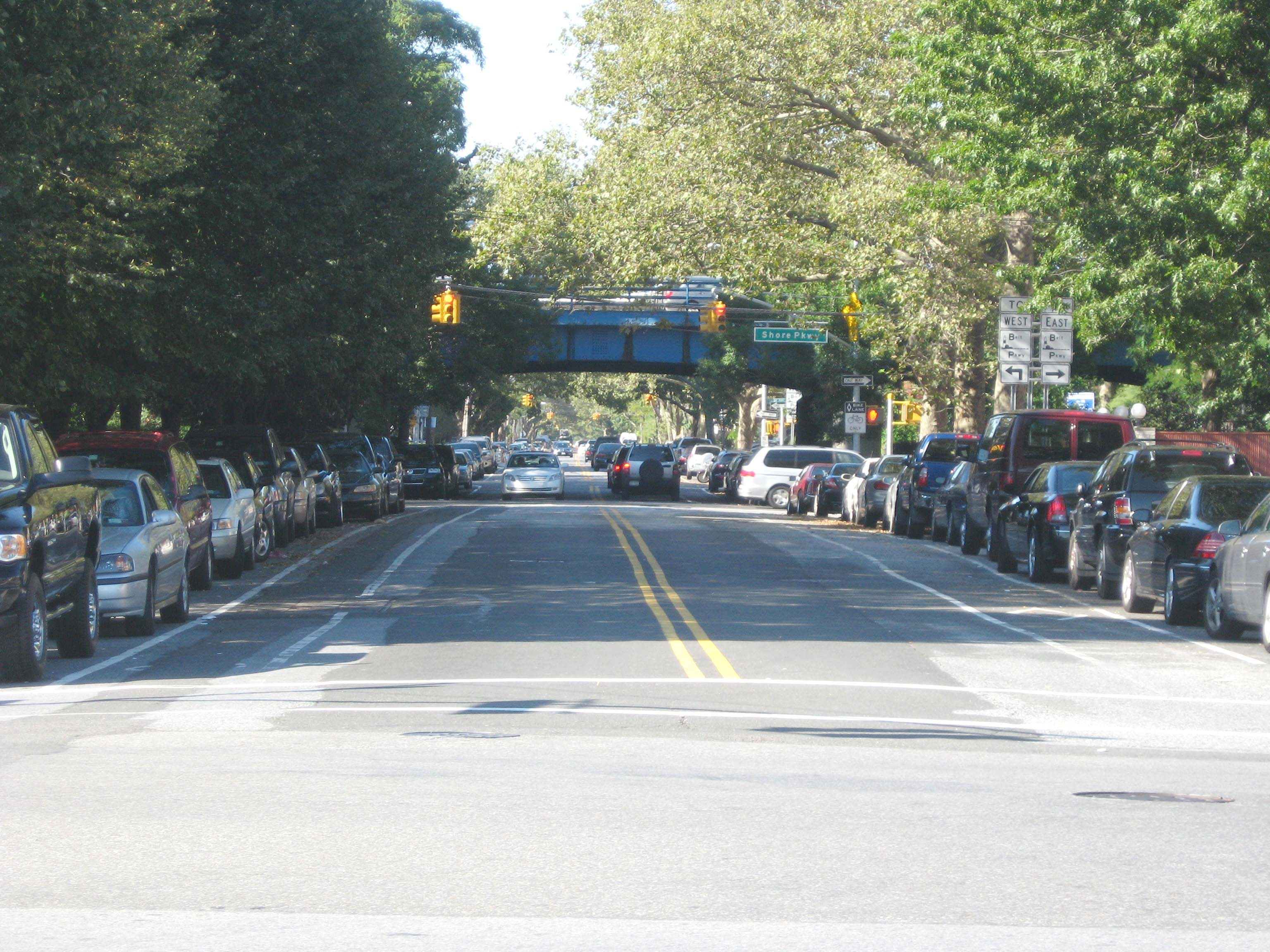 Looking north up Bedford Avenue (Brooklyn) from its foot on Emmons Avenue on a sunny early afternoon.